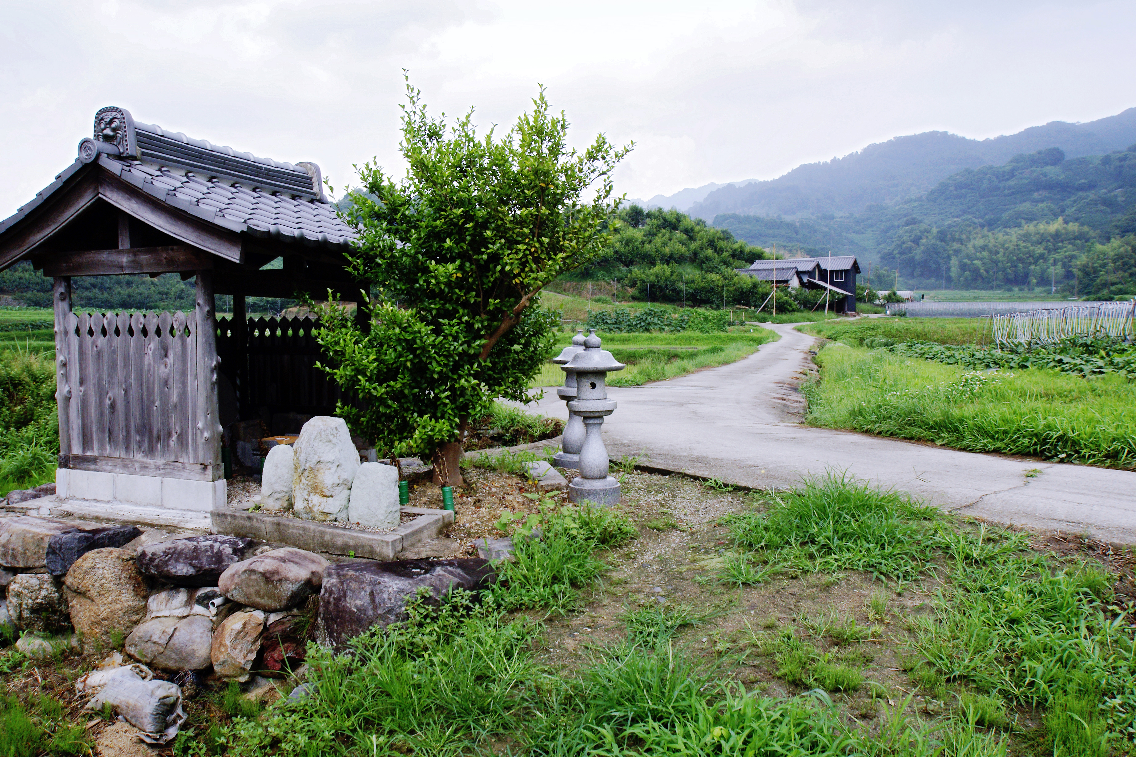 Yamanobe-no-michi at Tenri, Nara prefecture, Japan